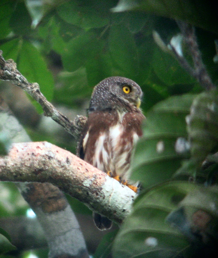 Amazonian Pygmy-owl (Glaucidium hardyi) in a tree in Peru